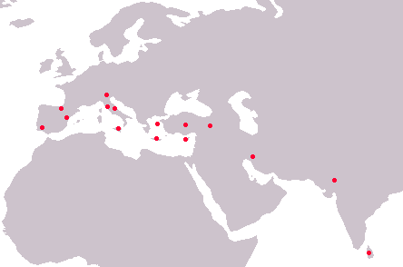 Location of pre-indoeuropean documented languages: Iberian Peninsula: Basque, Tartessian, Iberian Italian Peninsula: Etruscan, Rhaetian, Sican, Norht Picenian. Anatolian Peninsula: Hattic, Uratuan-Hurritan Greece and Cyprus: Lemnian, Minoan, Eteocypriotan Iran: Elamite India: Harappa language Sri Lanka: Vedda language